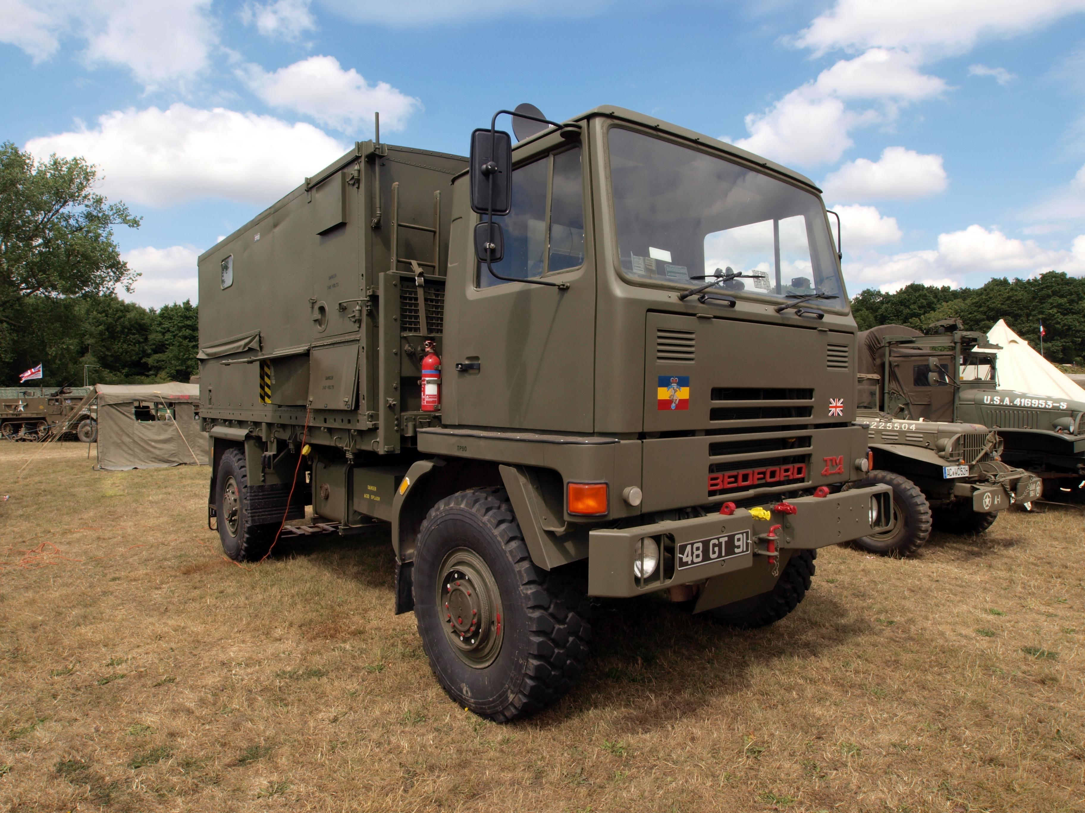 Bedford TM 4x4